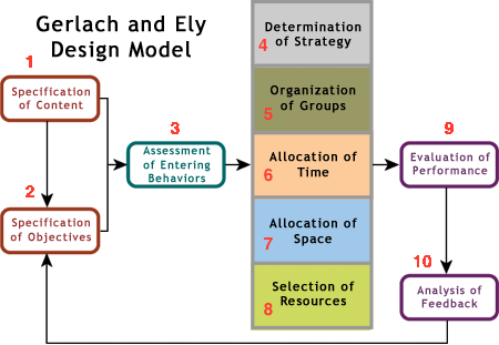 Gerlach and Ely Instructional Design Model showing the ten elements.